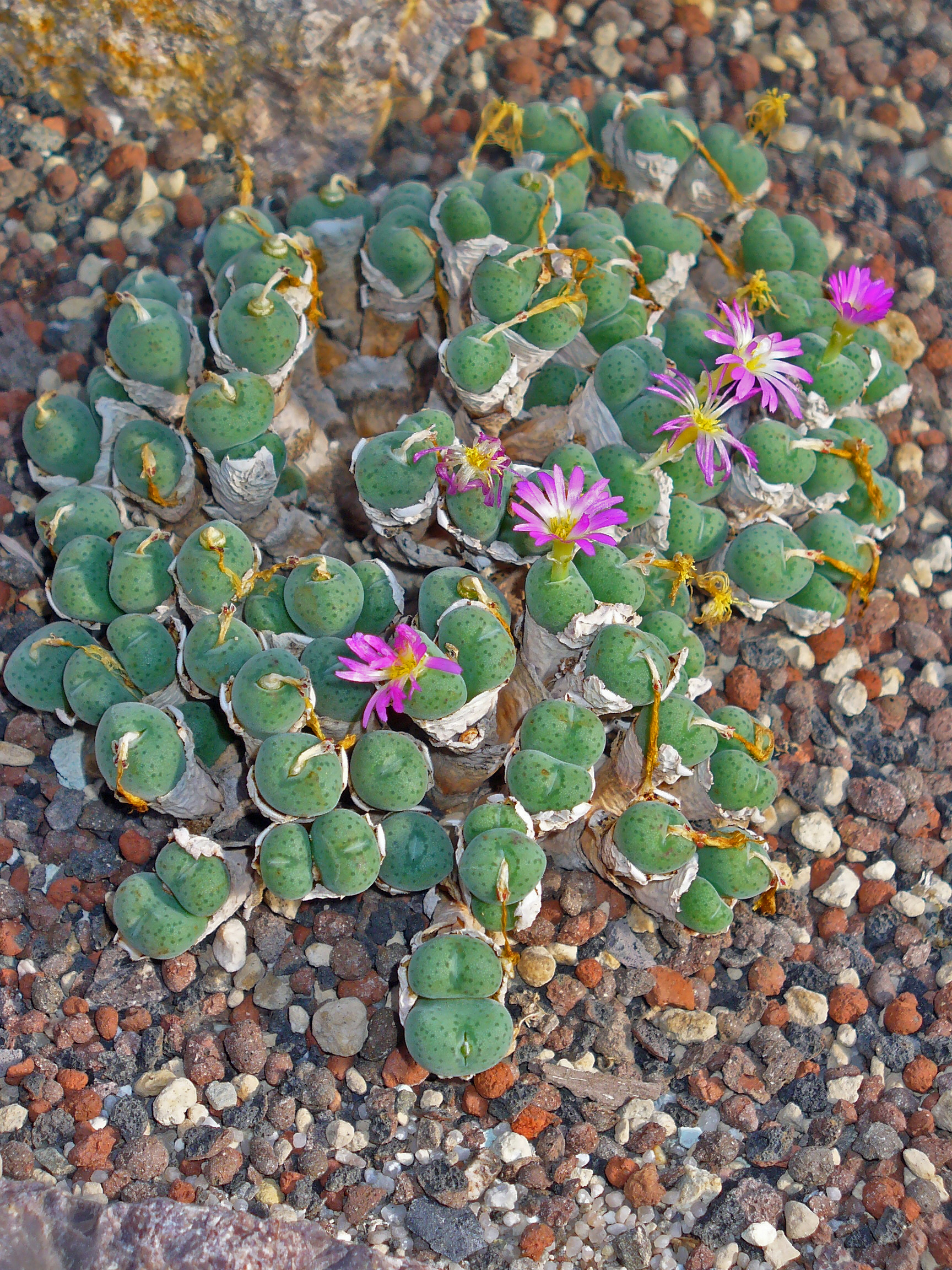 Habitus; Botanic Garden University of Heidelberg, Heidelberg, Germany..